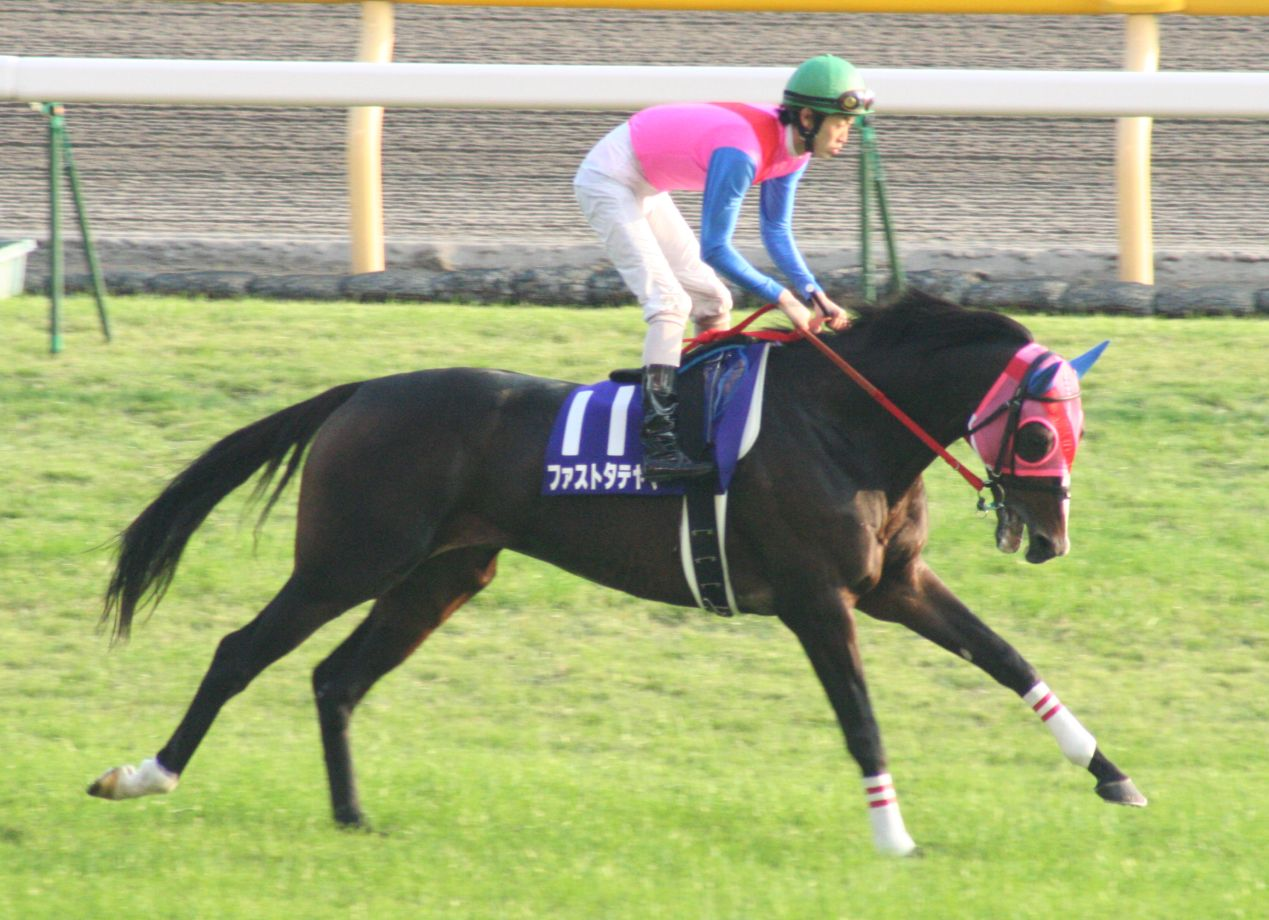 Fast Tateyama (Horse)